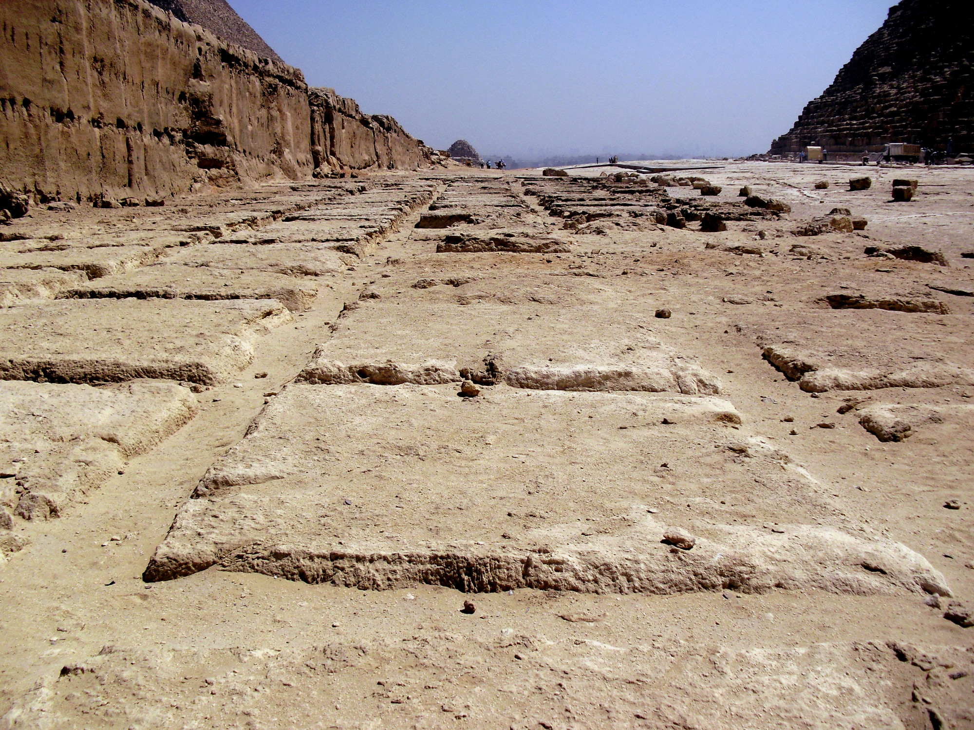 Quarries in Giza